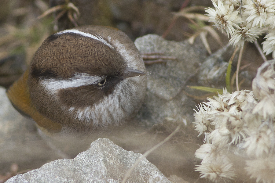 The species White-browed Fulvetta had been photographed during the birding tour of GoingWild in Pangolakha Wildlife Sanctuary, East Sikkim, India on 12.02.2016.